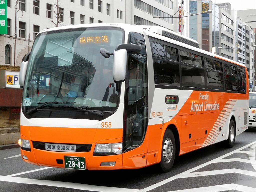 Airport Limousine bus (Airport Transport Service) Mitsubishi Fuso Aero Ace (QRG-MS96VP,Super Cabin)